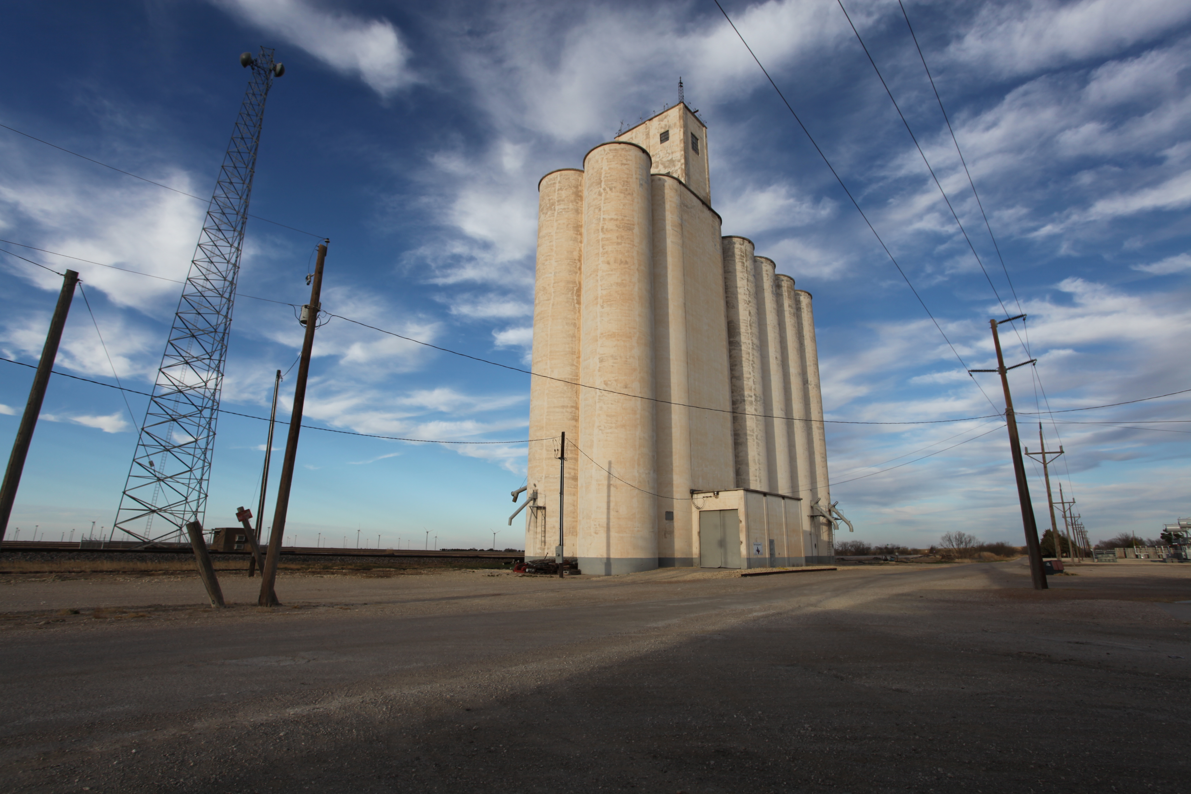 Plowboy grain elevator beside the tracks in Roscoe, Texas.